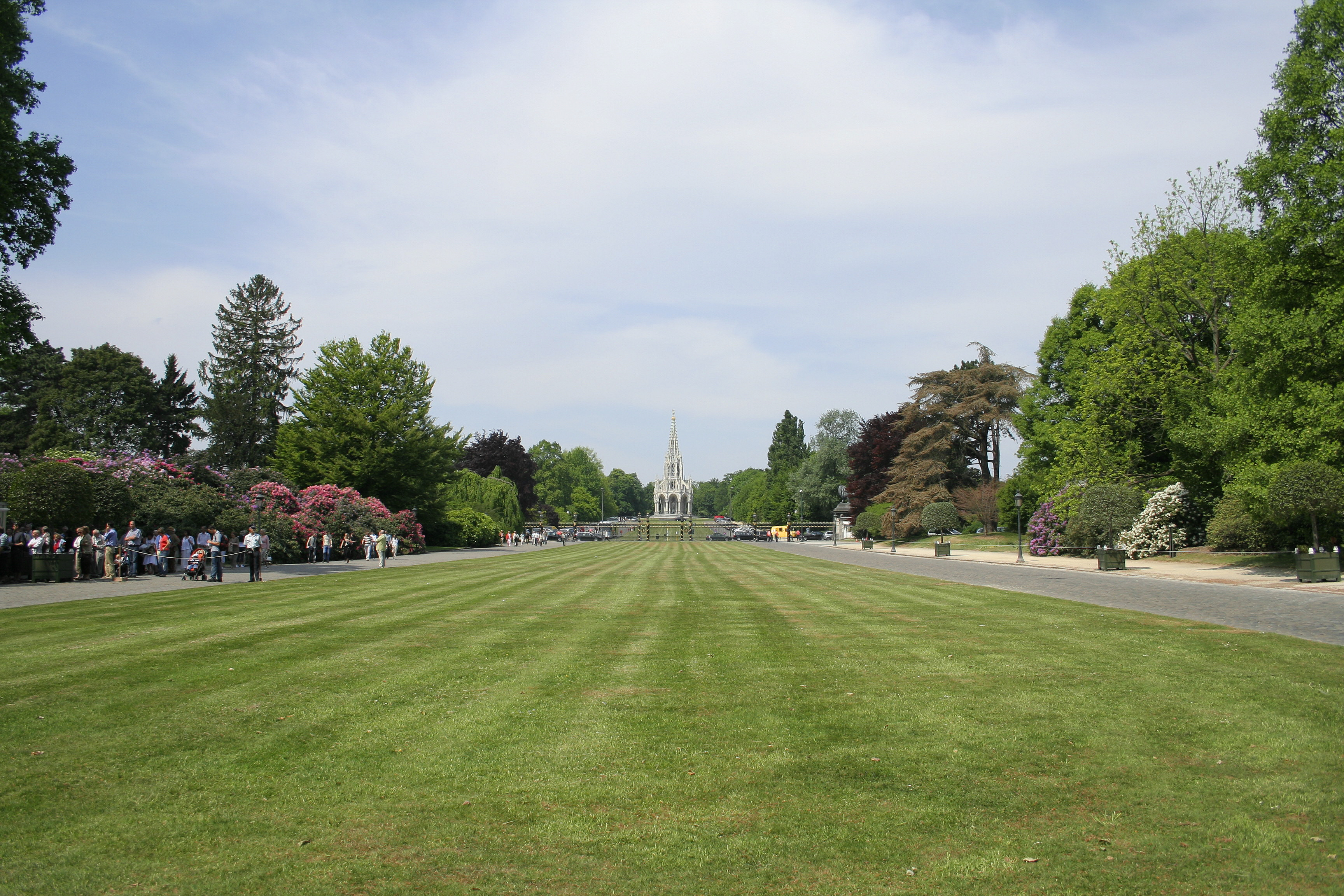 Laken (Belgium), gardens of the Royal Castle.